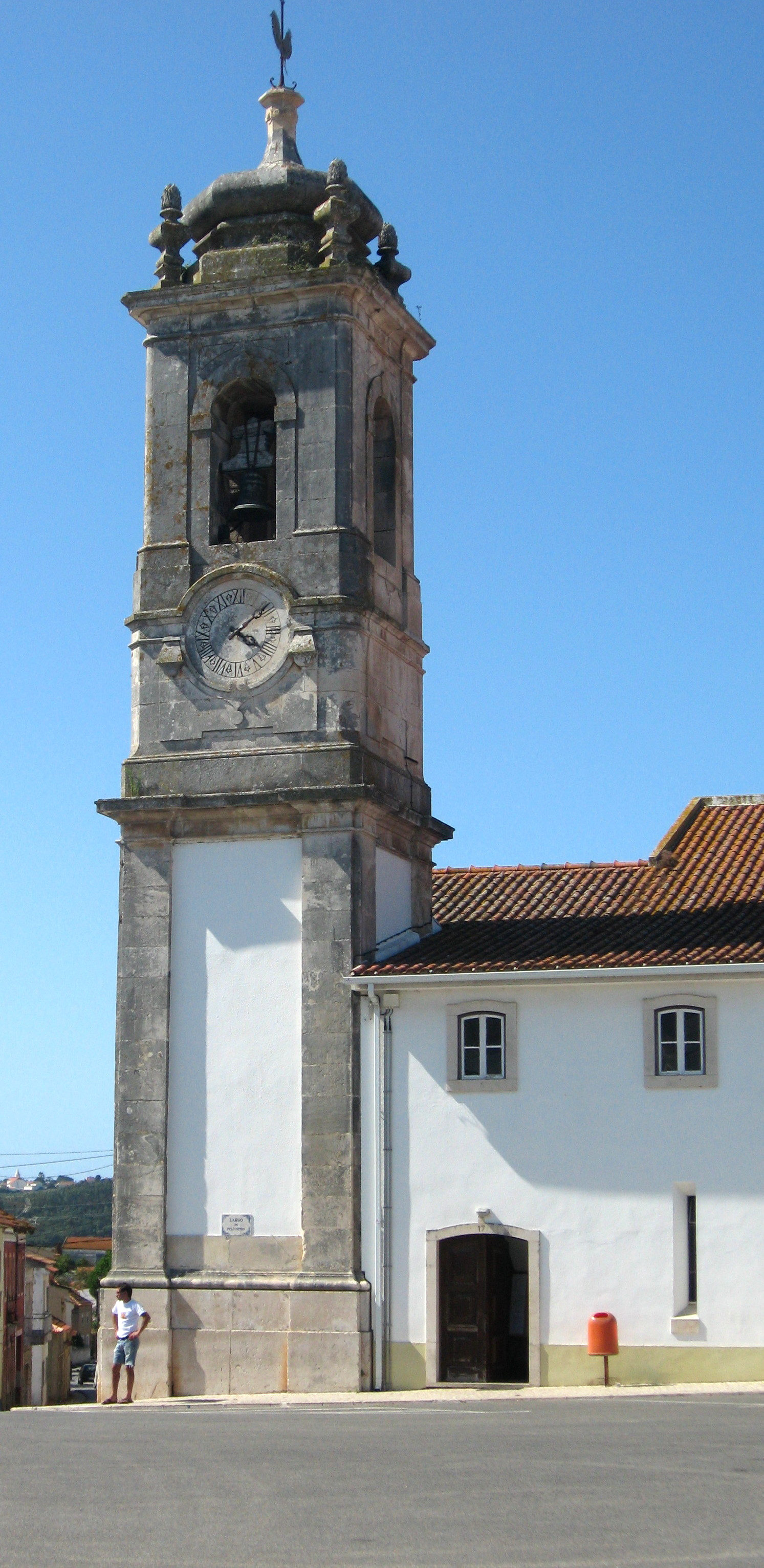 Alcobaça, Portugal, Mosteiro, Coutos de Alcobaça, old county of the Abbey, Santa Catarina one of the 13 cities of the Coutos,tower of the curch Santa Catarina, 16th century